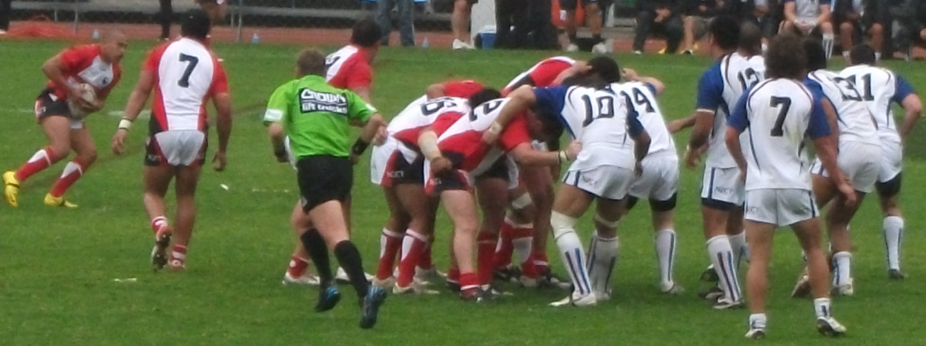 The Auckland and Counties Manukau rugby league teams in a scrum during the New Zealand Rugby League grand final on 17 October 2010 at Mt Smart Stadium